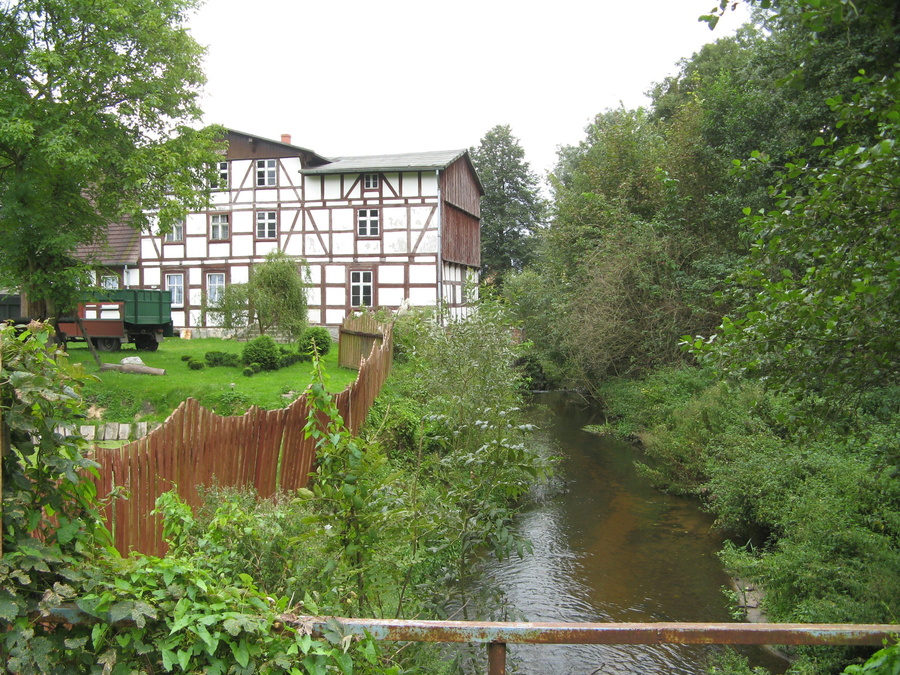 Mill of Suchanówko, Poland (before 1945 german Schwanenbeck, Pommern)